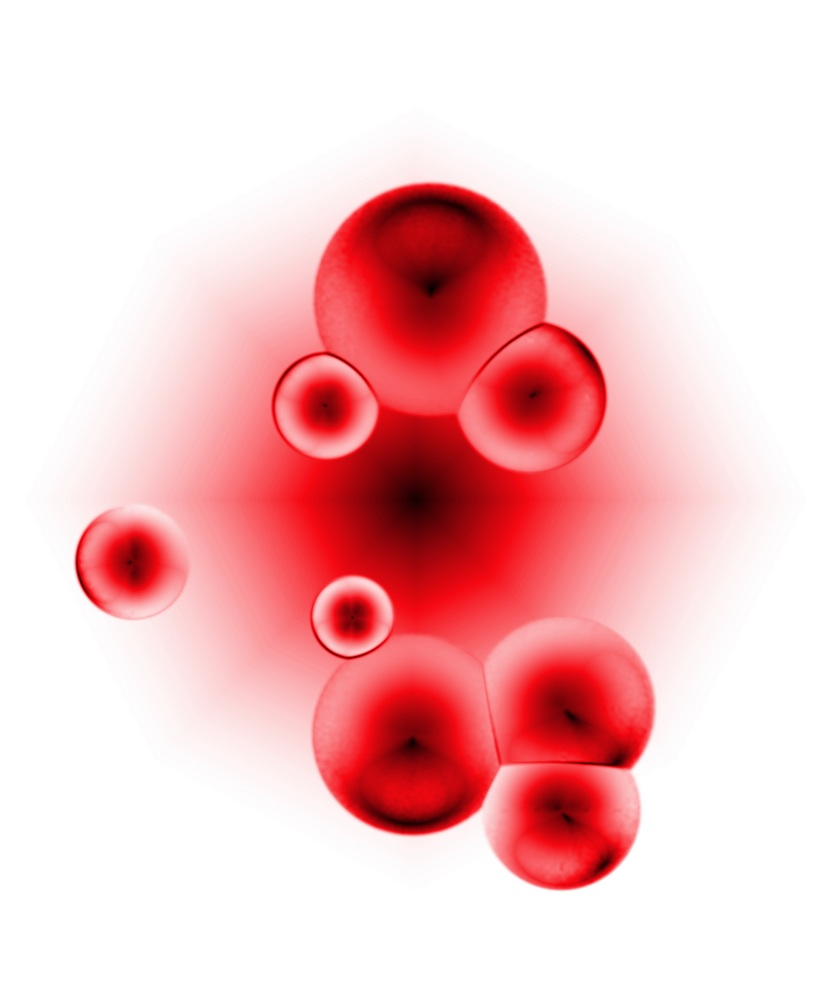 blood cells from the microscope